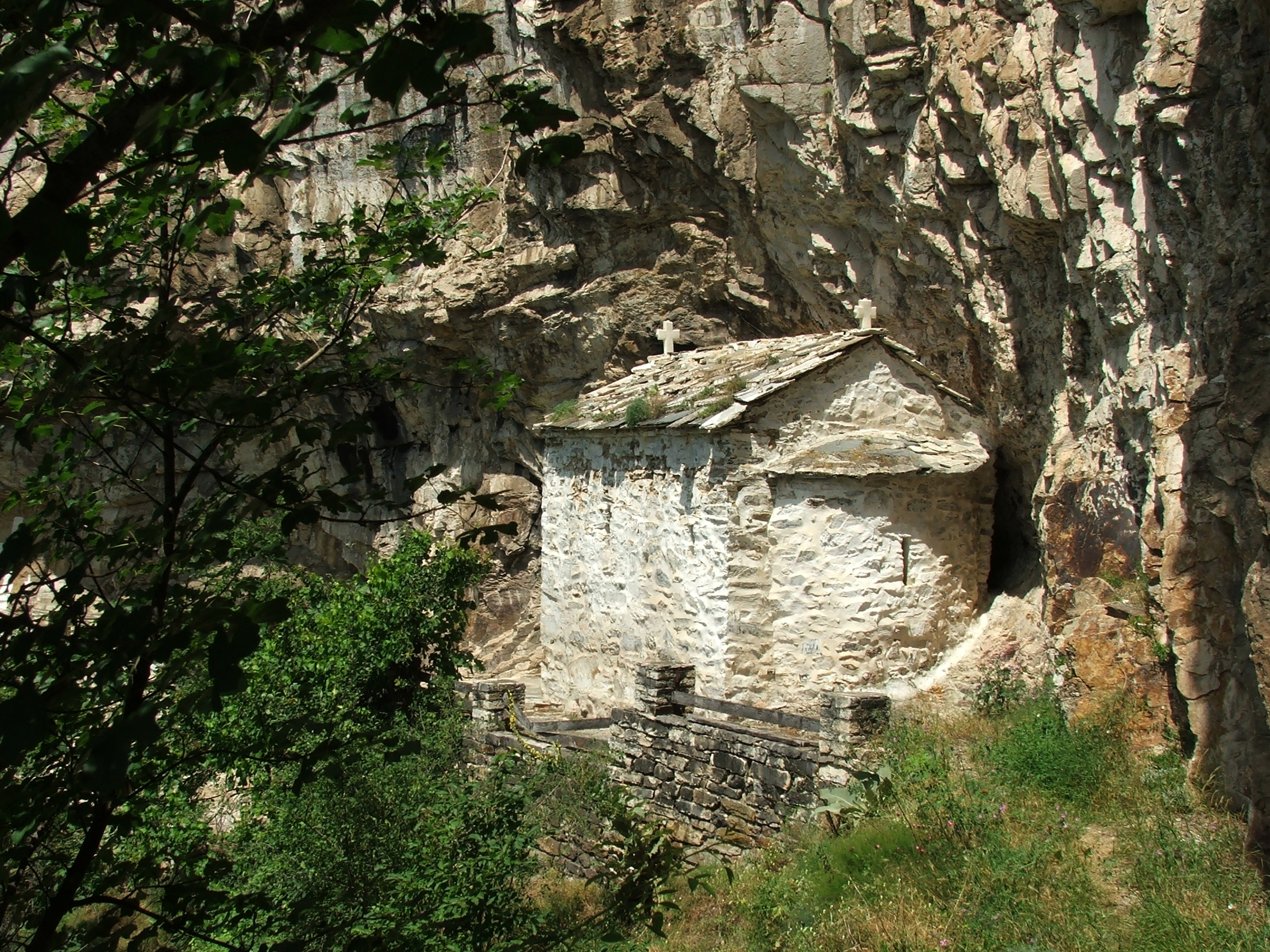 Upper Hermitage of Saint Sava, Studenica - St. George ChurchСрпски (ћирилица): Црква Светог Георгија - Горња испосница Светог Саве, Студеница